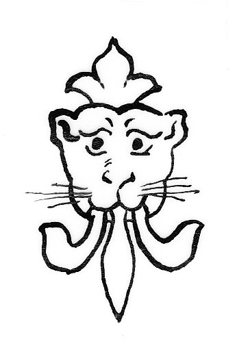 Heraldic image of a leopard's face jessant-de-lys showing the non-standard form with fleur-de-lys reversed. Drawing copied by hand from Boutell, Charles, Heraldry Historical & Popular, London, 1863, p.177.